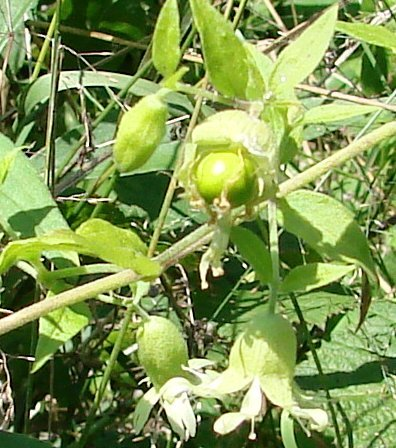 Wyżpin Cucubalus_baccifer